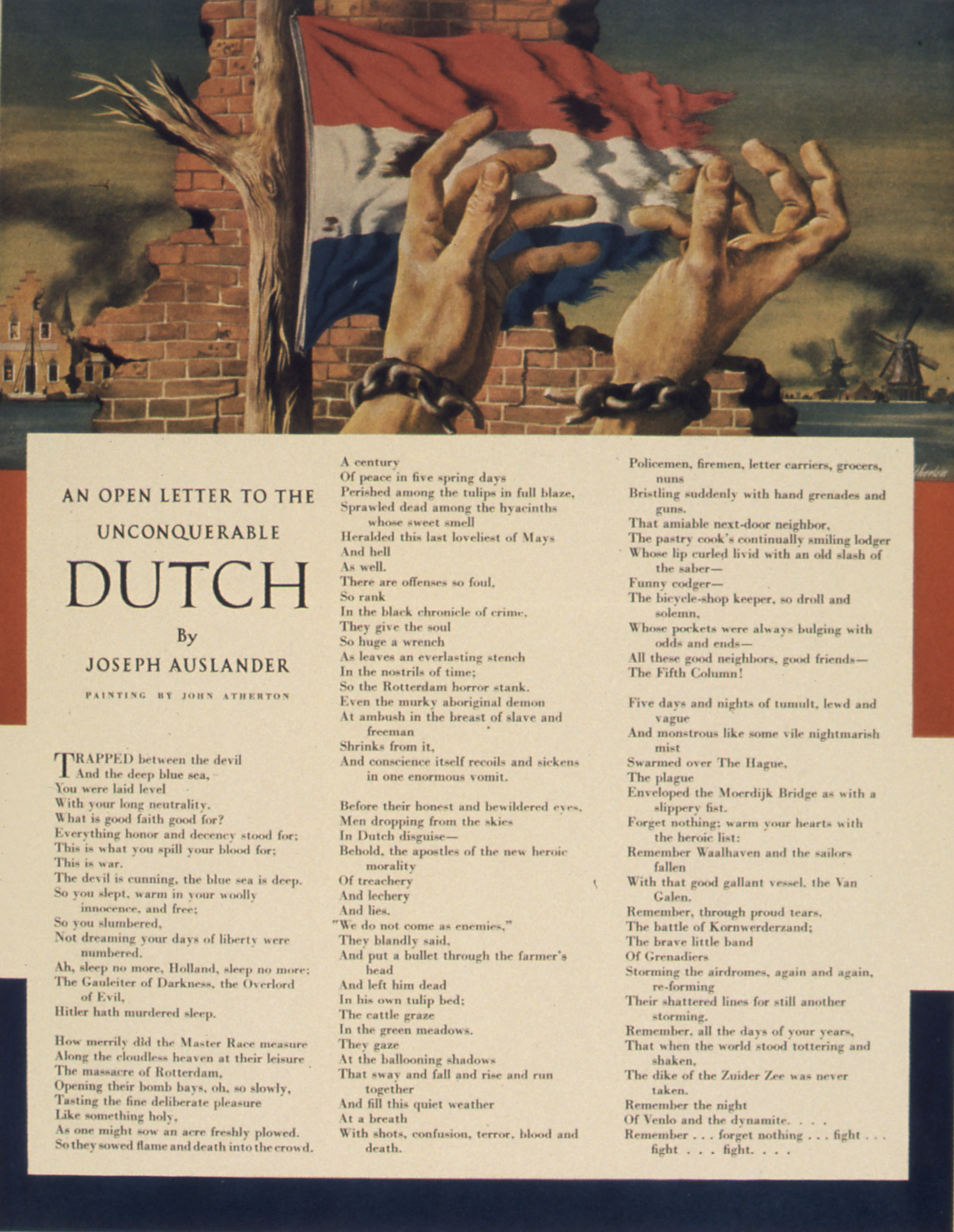 AN OPEN LETTER TO THE UNCONQUERABLE DUTCH (by Joseph Auslander)